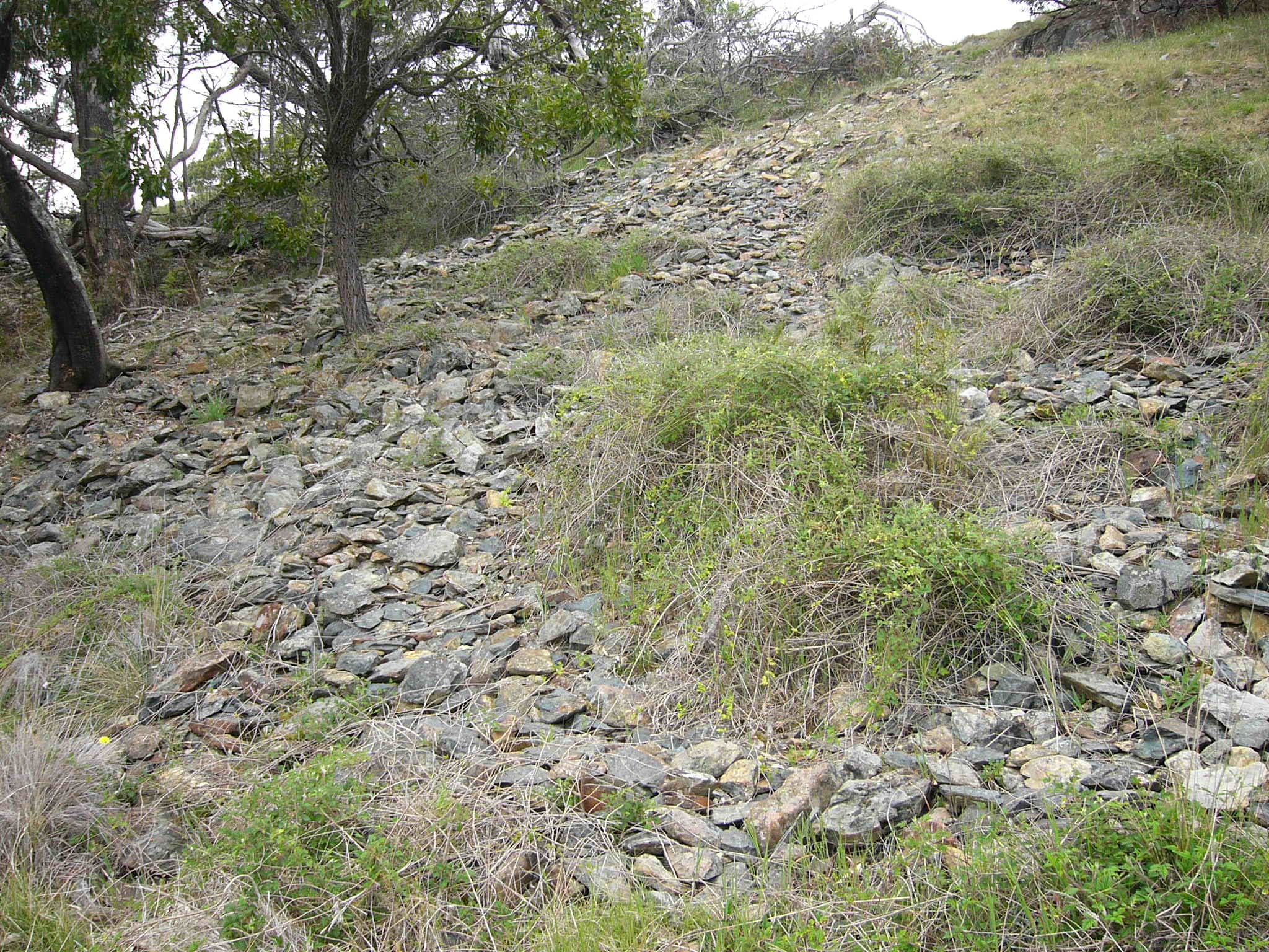 Mount William Aboriginal stone axe quarry Victorian, australia. showing waste stone and blanks in primary reduction area.